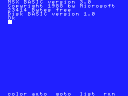 A screenshot of MSX BASIC taken by User:Ruud Koot